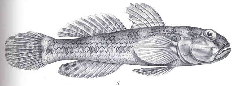 Rhinobogius leftwichii, Ogilby A specimen 66 mm. long, from the Great Sandy Strait, Queensland Subject: Gobiidae, Rhinogobius leftwichii Tag: Fish